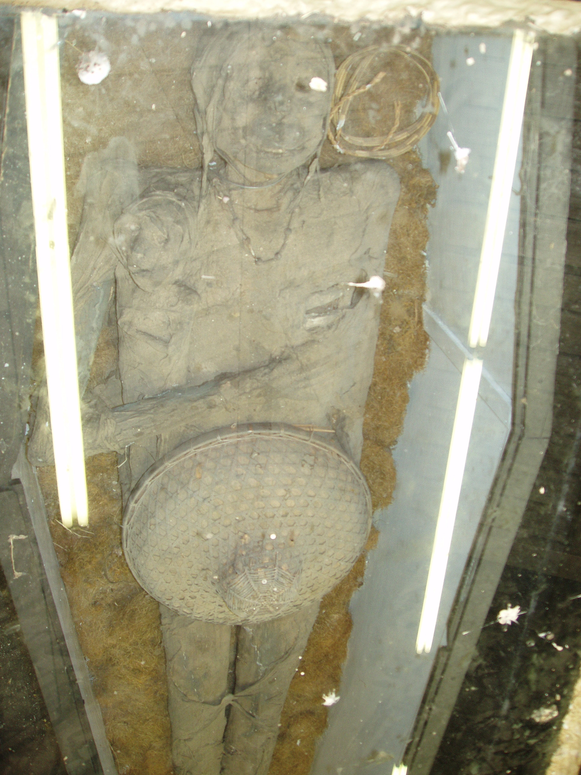 Photo taken July, 2006